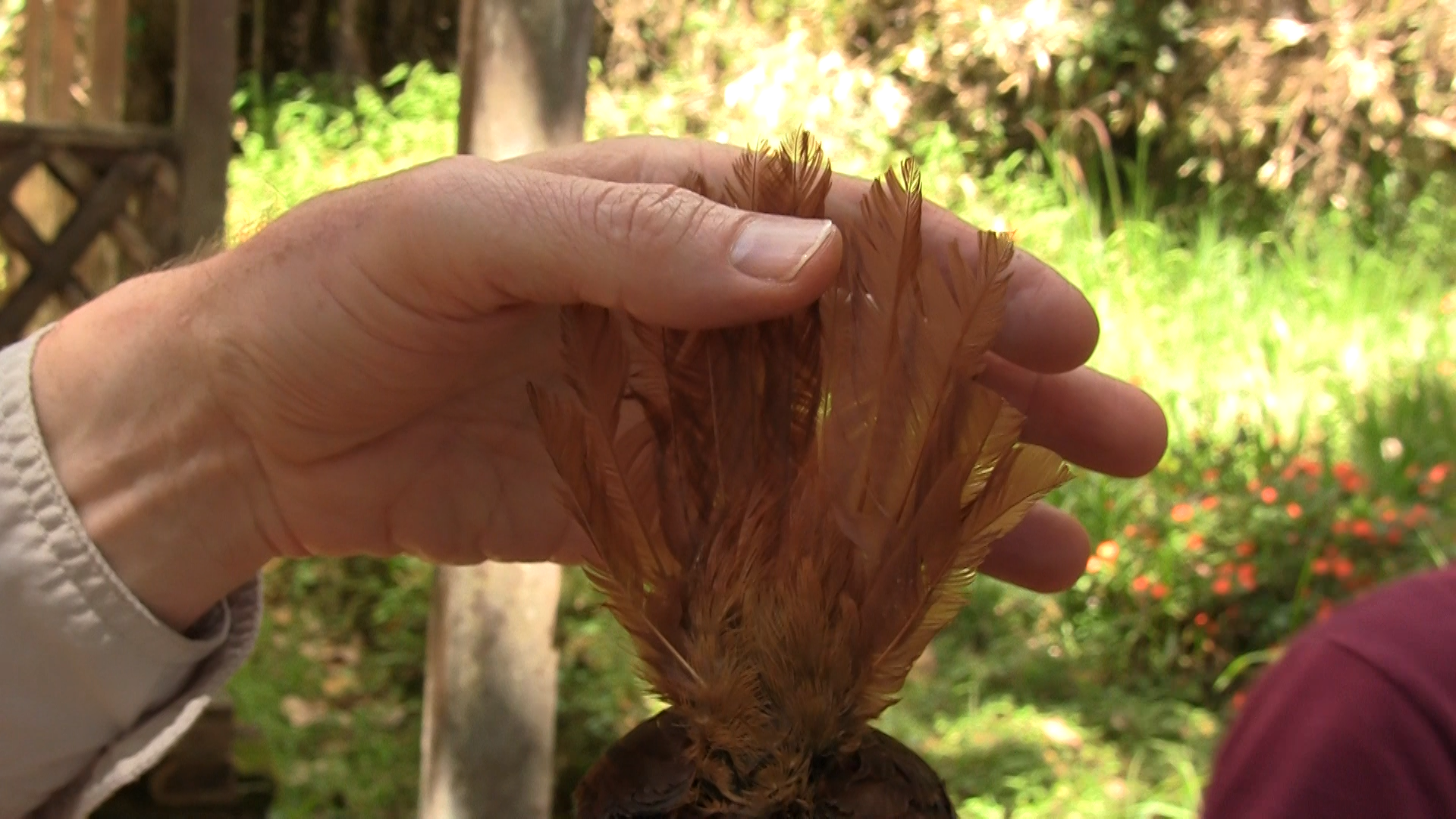 Shot of the rectrices of a captured Striped Treehunter